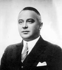 Yugoslav politician